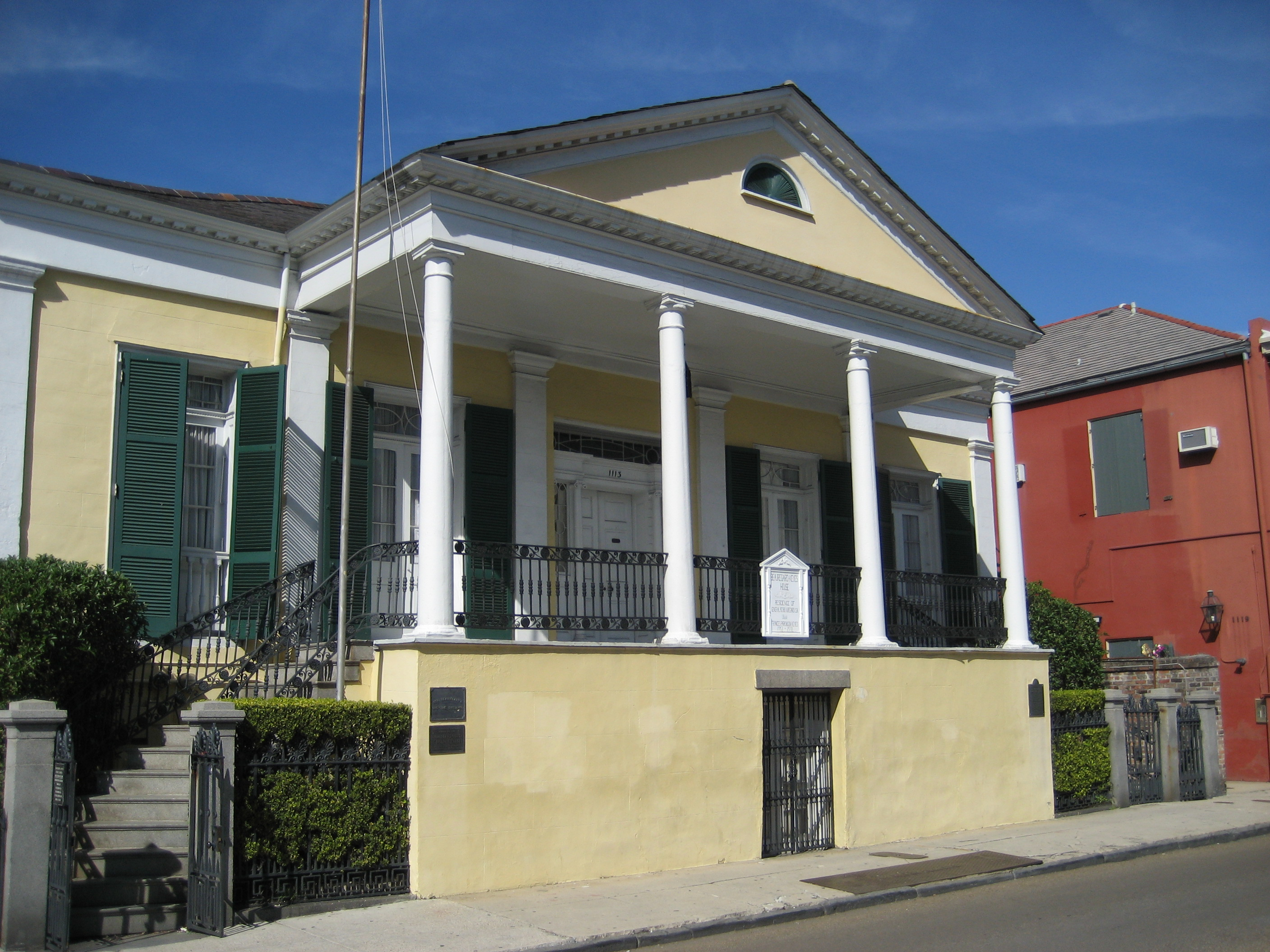 French Quarter, New Orleans. House formerly residence of General P.G.T. Beauregard and later writer Francis Parkinson Keyes.